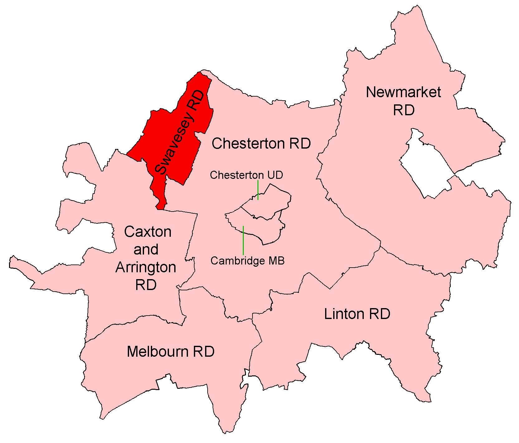 Swavesey Rural District, shown within the administrative county of the Cambridgeshire. Cambridge MB was enlarged, and Chesterton UD abolished, 1912. Other boundaries shown are correct from 1894 to 1934.